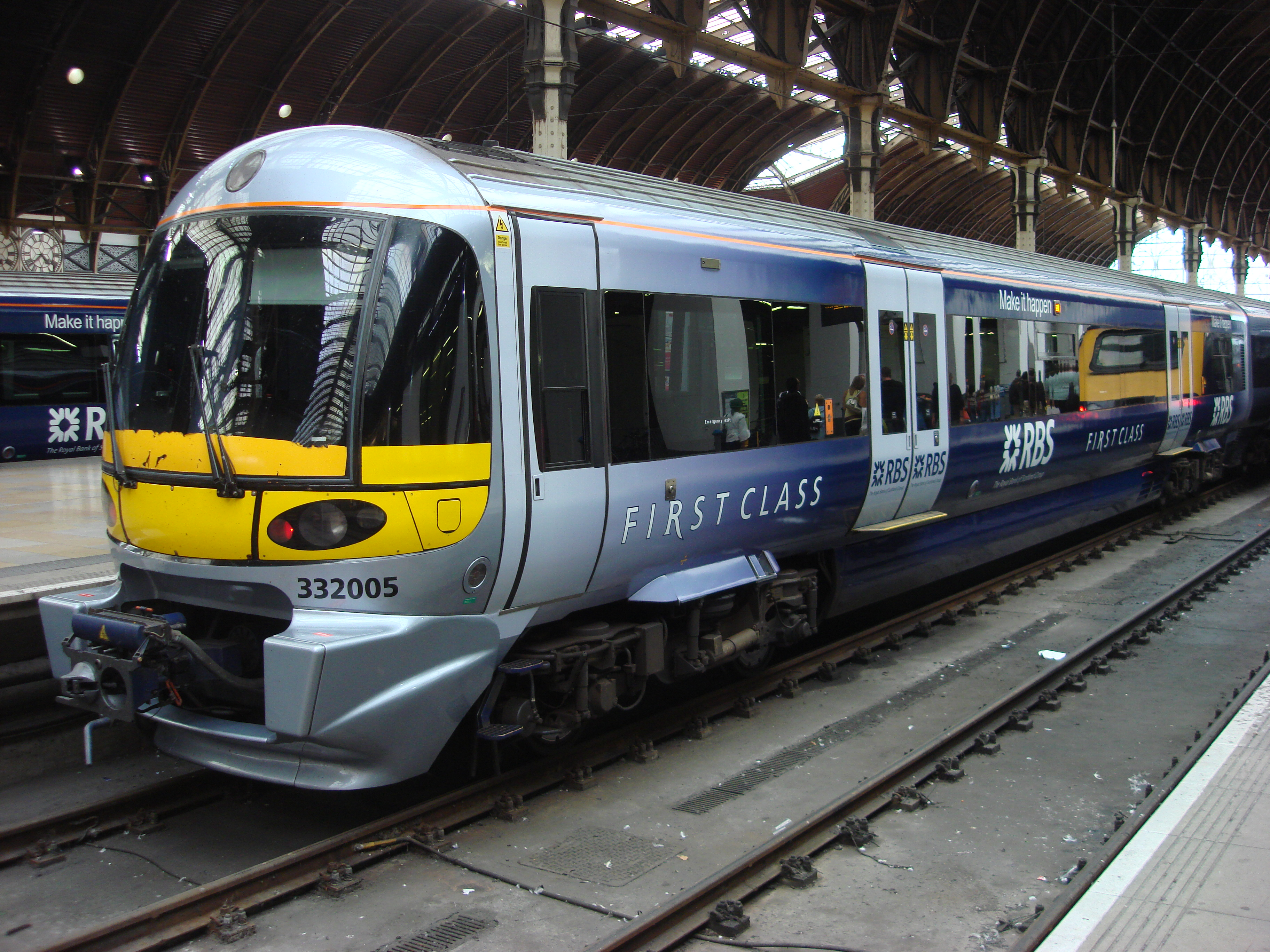 332005 at Paddington Station, London, UK